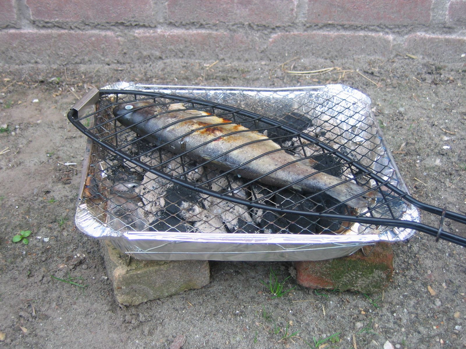 Fish on a barbecue.